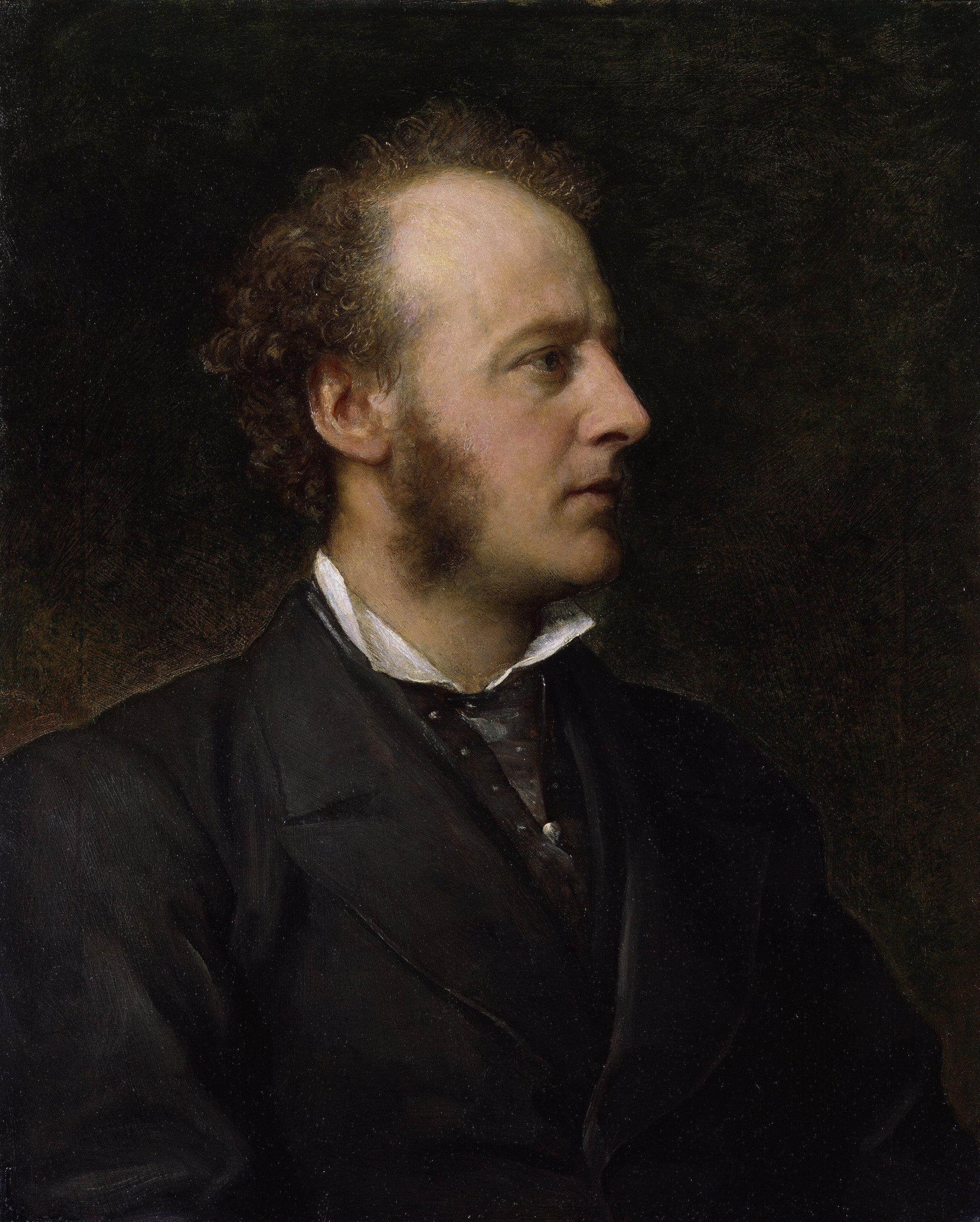 Sir John Everett Millais, 1st Bt, by George Frederic Watts (died 1904). All images in this batch have been confirmed as author died before 1939 according to the official death date listed by the NPG.